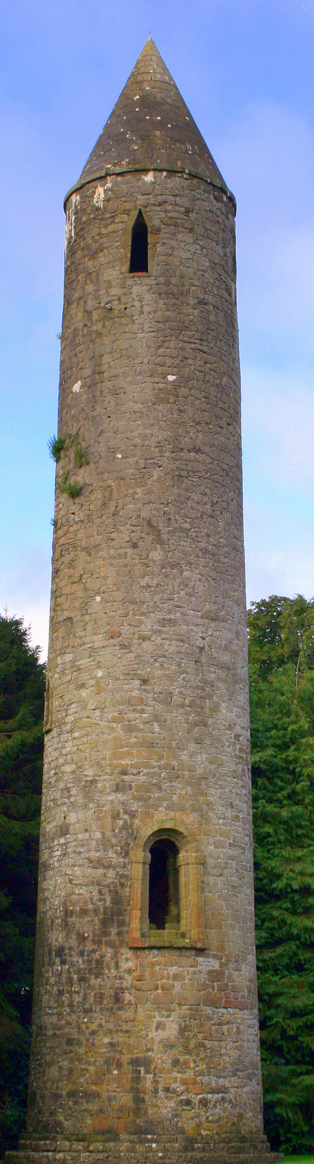 Round Tower, Timahoe, Ireland. Note the door is above ground for defensive purposes.